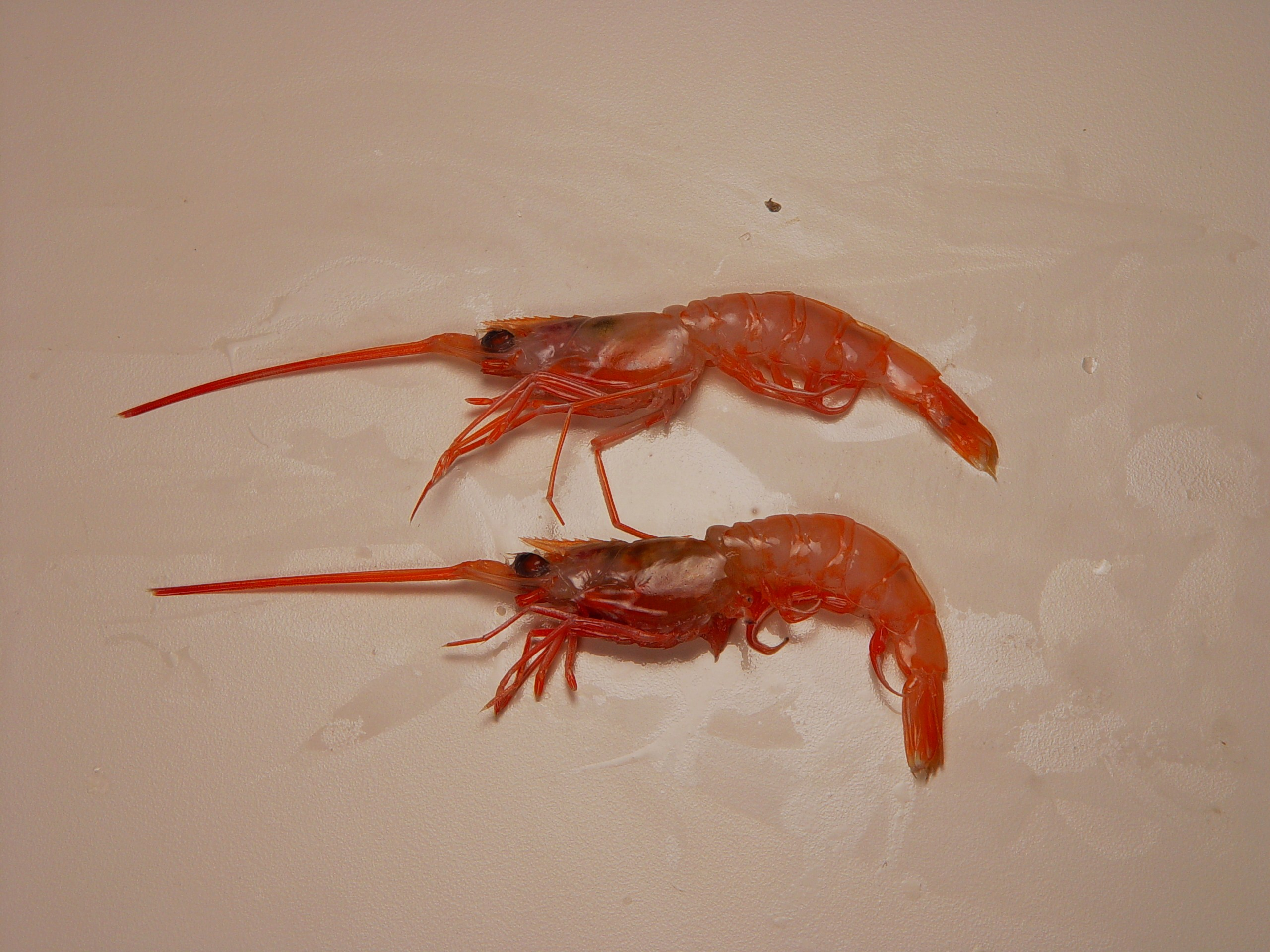 Humpback shrimp ( Solenocera vioscai ). Gulf of Mexico.